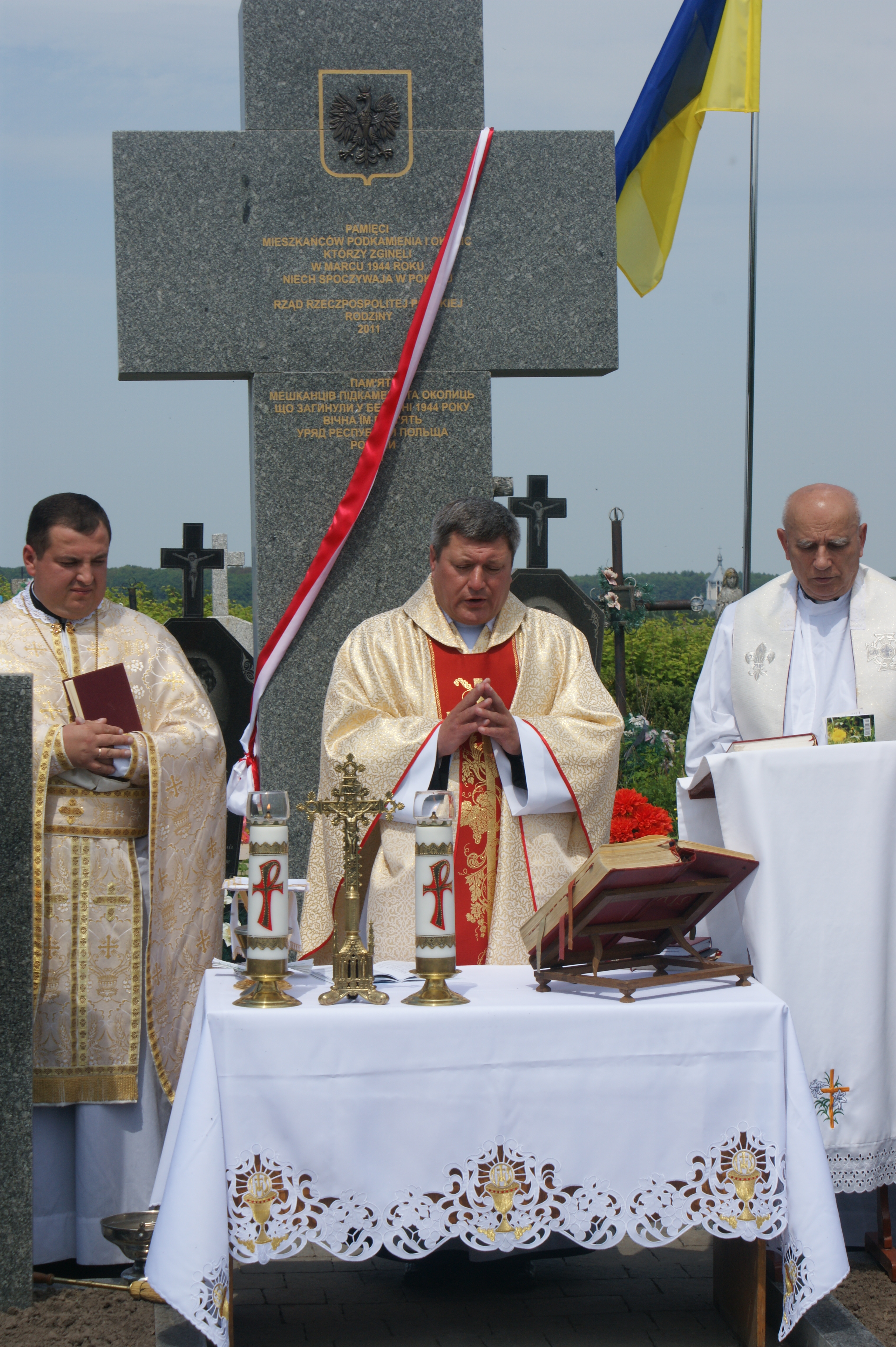 Ceremony of Podkamień monument opening